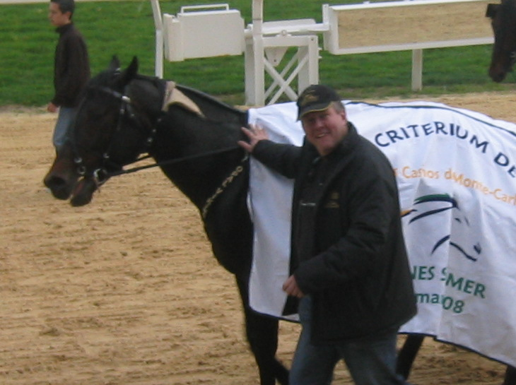 Opal Viking winner of the Critérium de vitesse de Cagnes-sur-Mer 2008. Nils Enqvist his trainer is on the left and Jorma Kontio on sulky